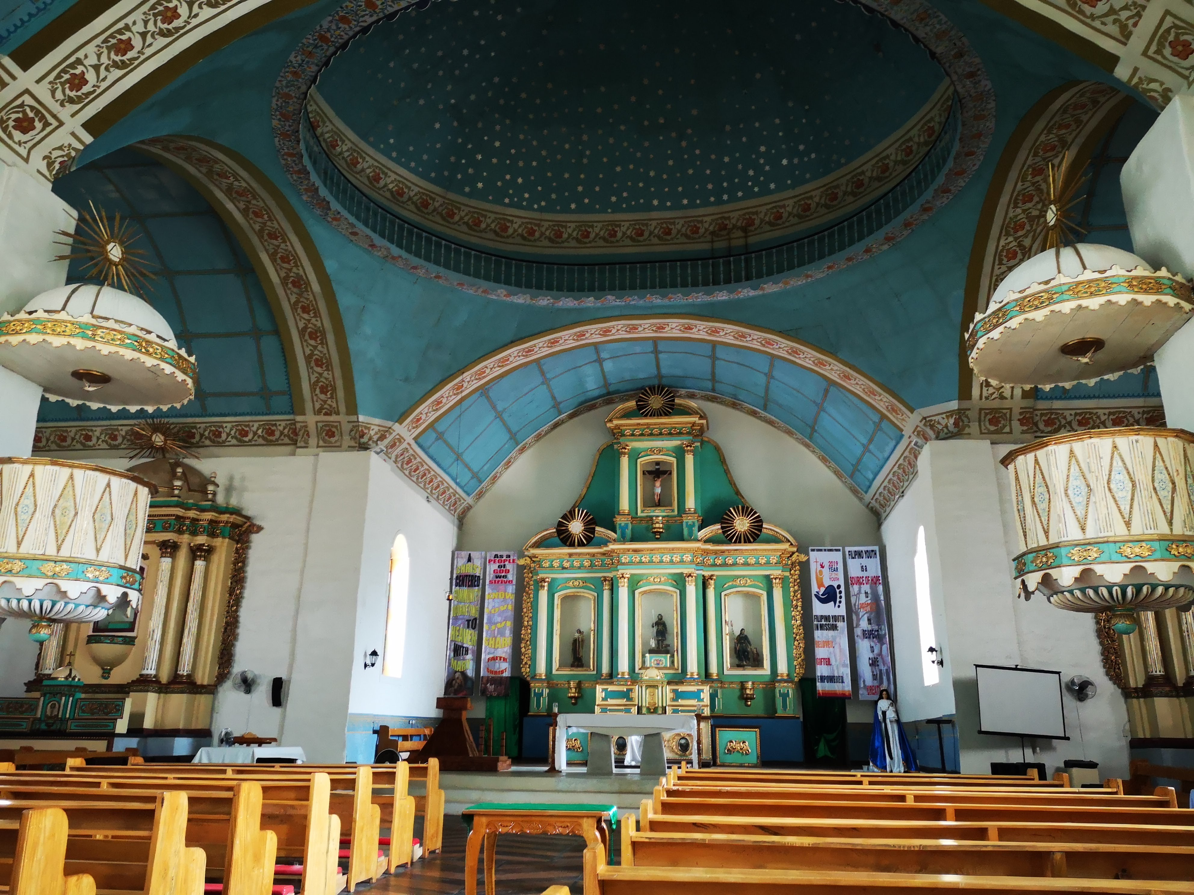 Le retable et la coupole étoilée de l'église de Lazi